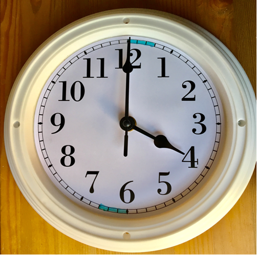 Clocks displaying Greenwich Mean Time (GMT) aboard ships. Colored wedges indicate silent periods to listen for weak distress calls: In blue, radio silence for 3 minutes on the frequencies : 2174.5 kHz , 2182 kHz and 2187.5 kHz. Distress calls can be made at any time.